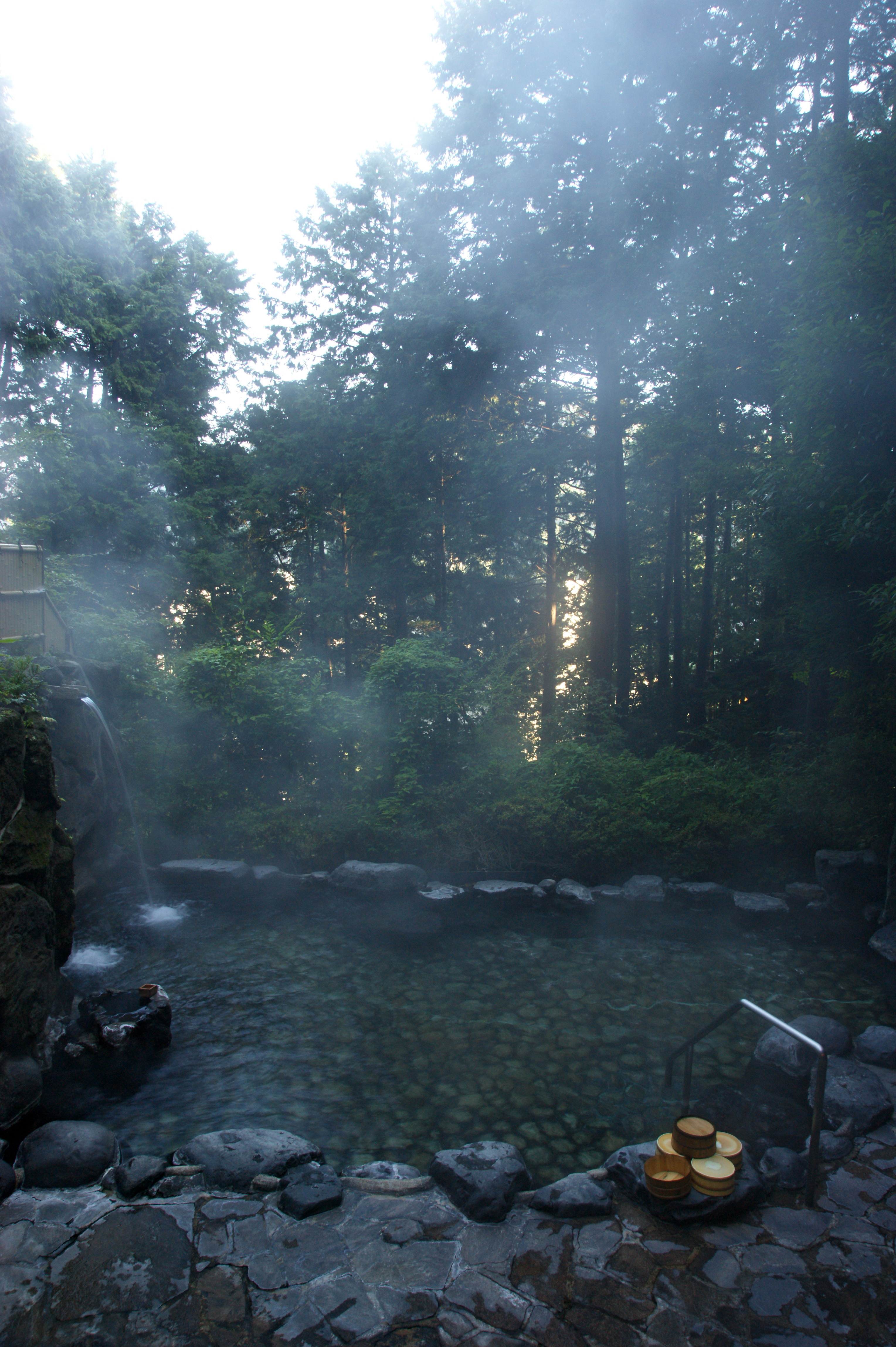 Yumura Onsen, Shinonsen, Hyogo prefecture, Japan